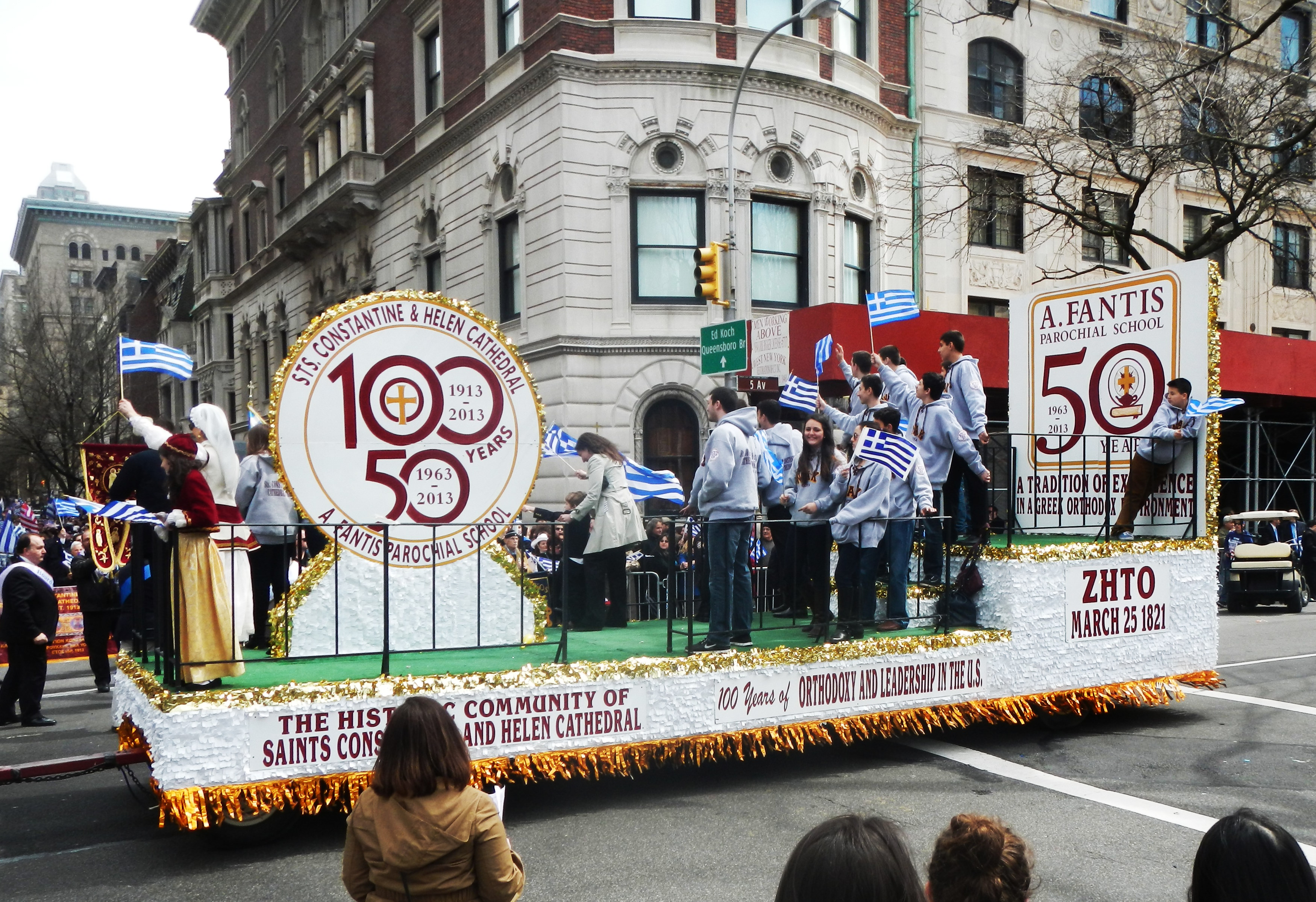 Looking southeast across 5th Avenue at Brooklyn orthodox school celebration on a cloudy day. EXIF location is two blocks north due to photographer's error.